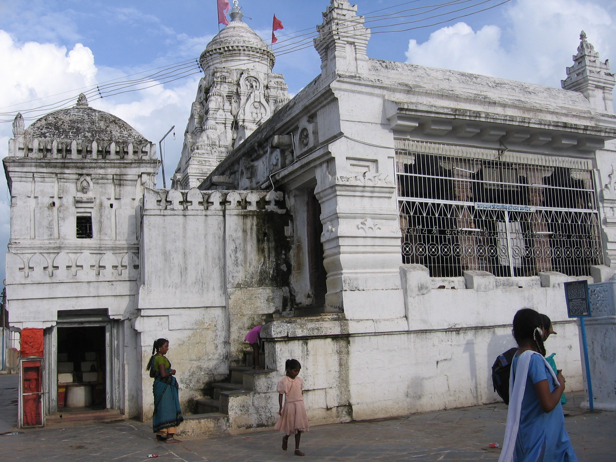 Rajiv Lochan Temple, Rajim, Chhattisgarh